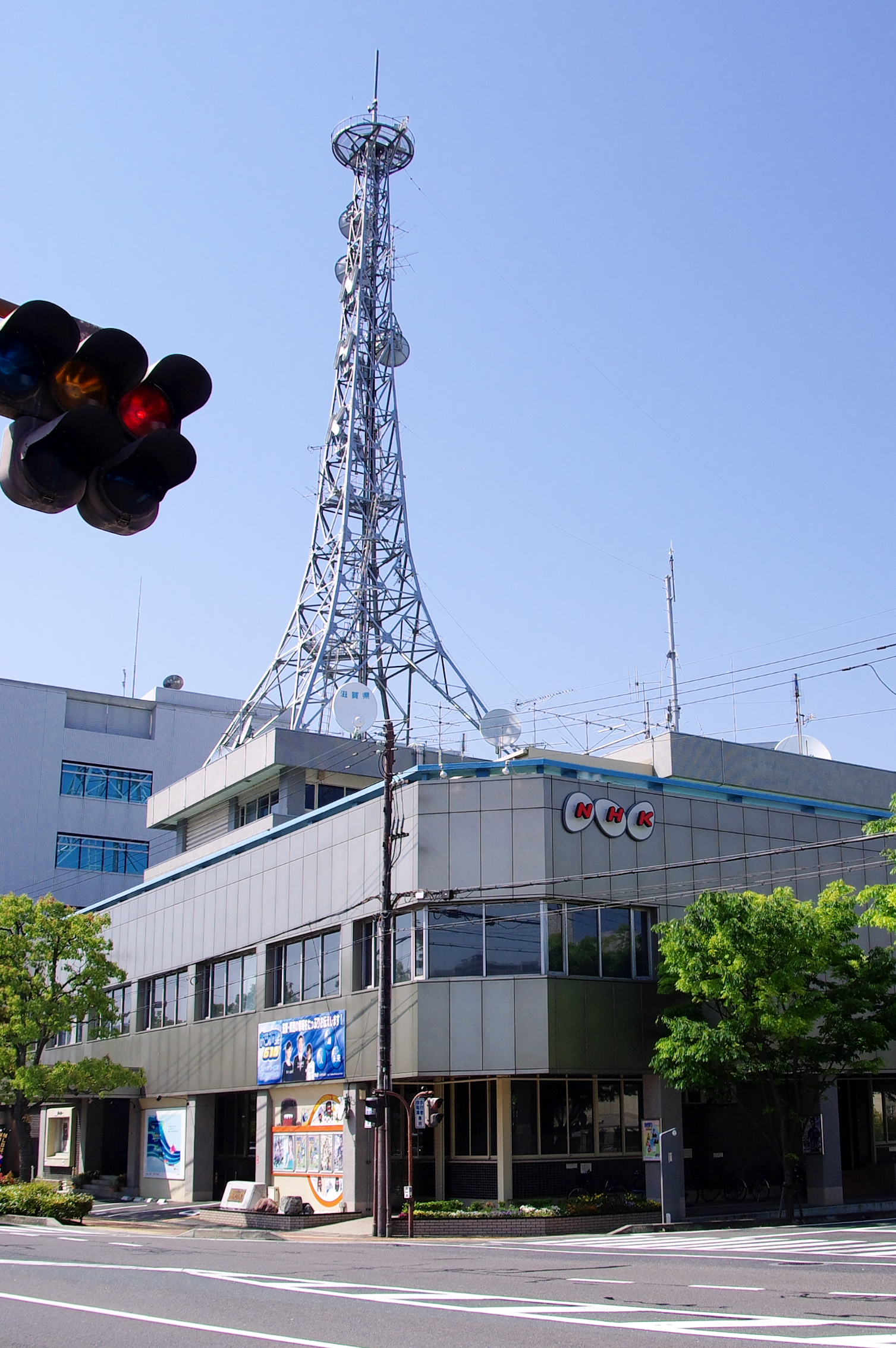 Photograph of NHK Otsu Broadcasting Station in Otsu, Shiga Prefecture, Japan.